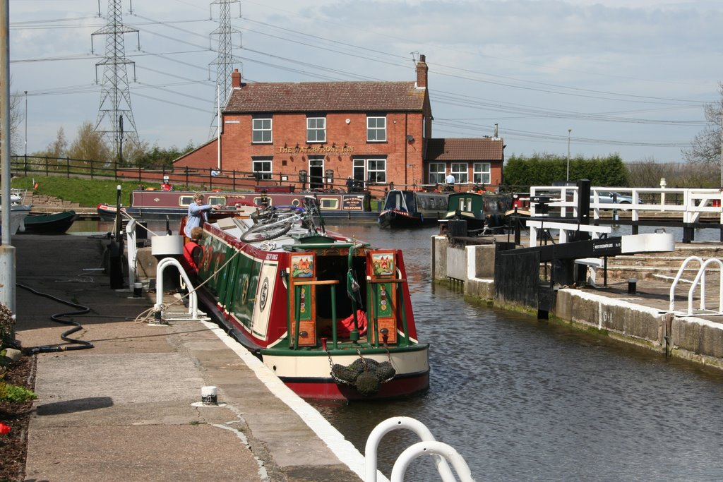 Narrowboat in West Stockwith lock just ascended from the River Trent